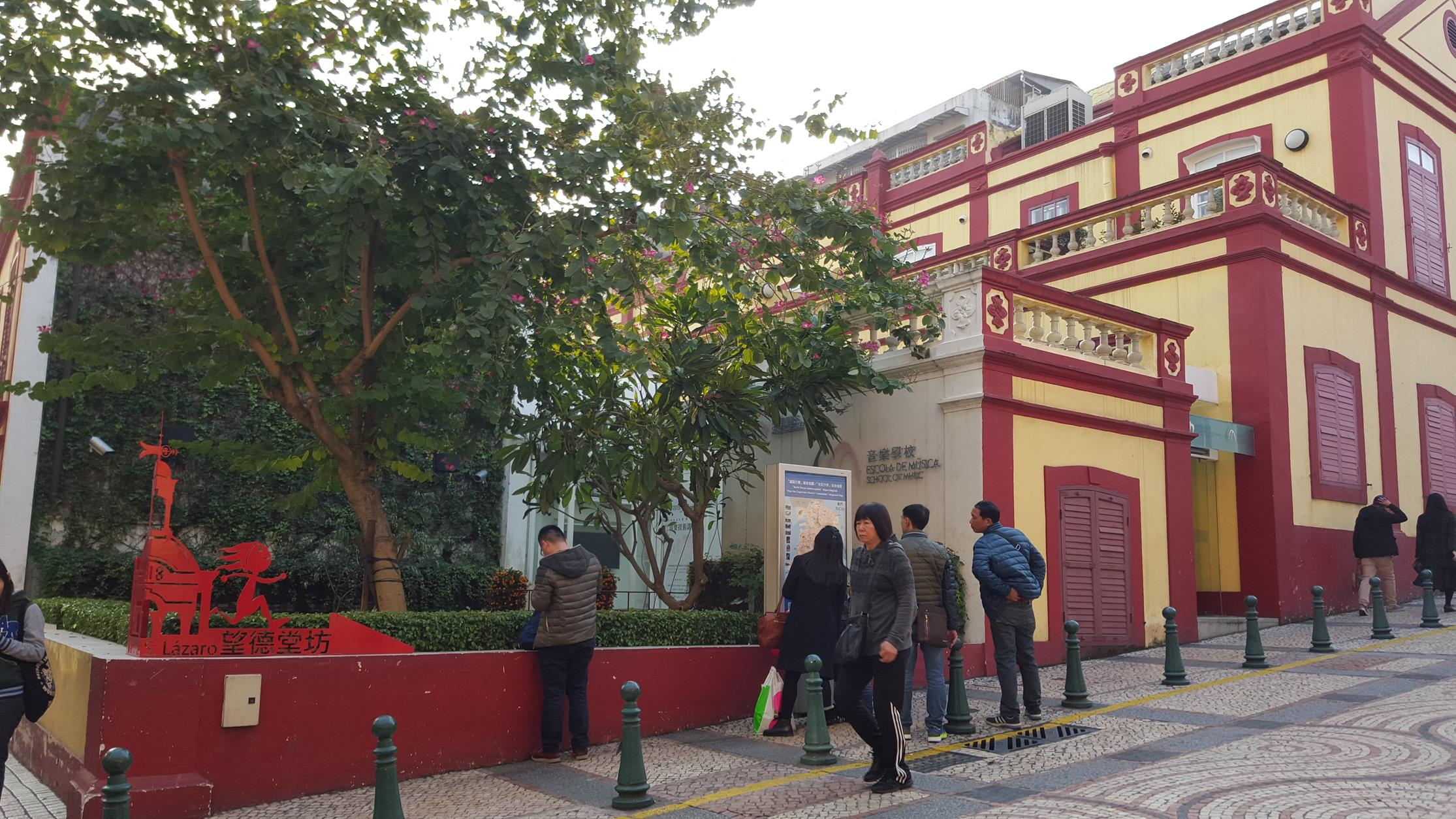 School of Music, Macao Conservatory